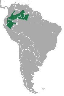 White-fronted Spider Monkey (Ateles belzebuth) range